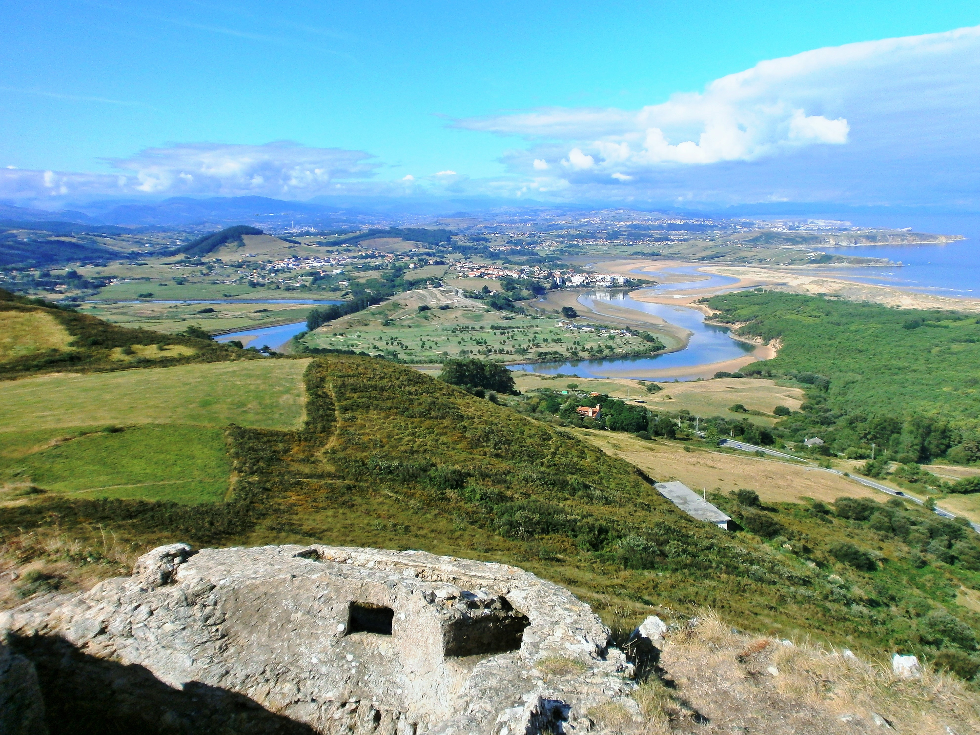 Casamatas para la defensa del monte Tolio, en Mortera, Cantábria, Mortera hechas durante la guerra civil